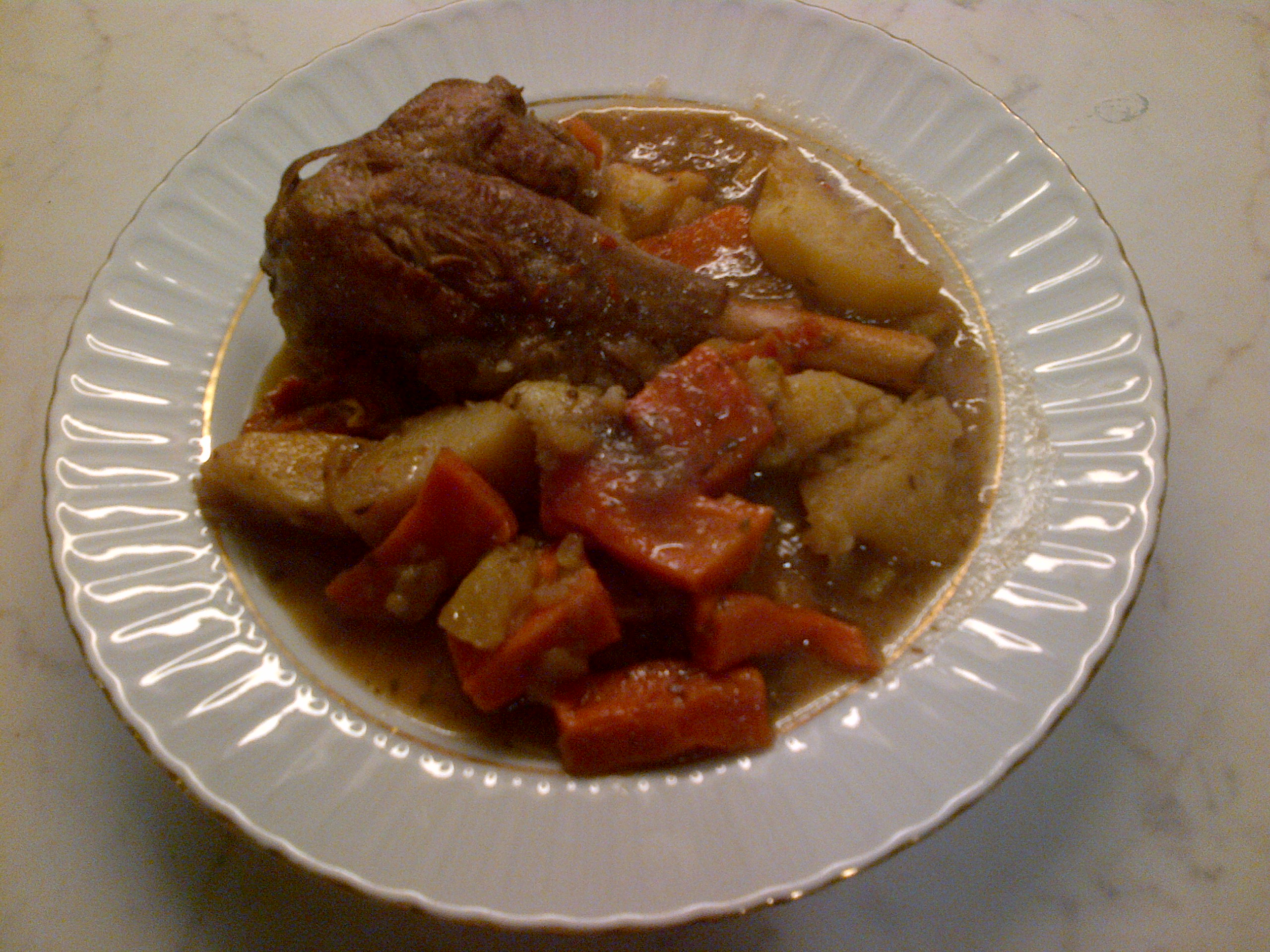 Kuzu kapama made with a lamb shank.